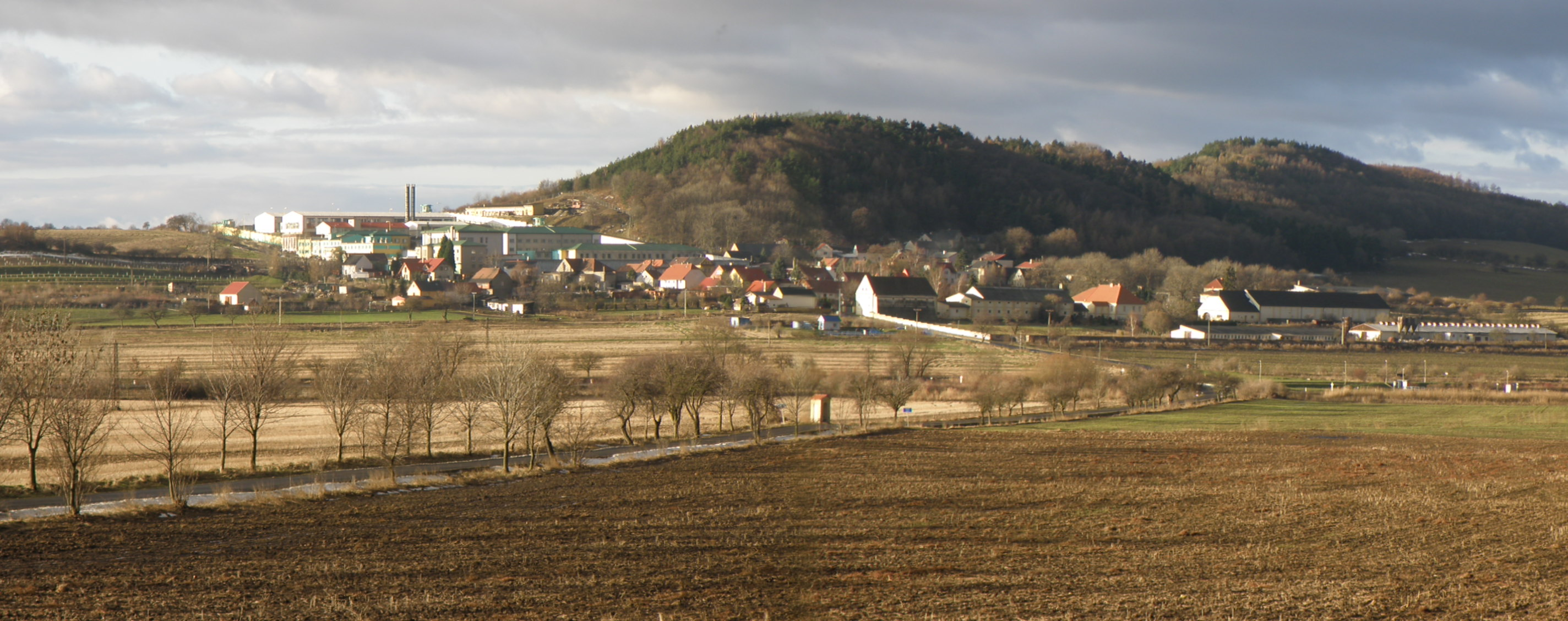 Bělušice, panorama, from nord-east. January, 2011.